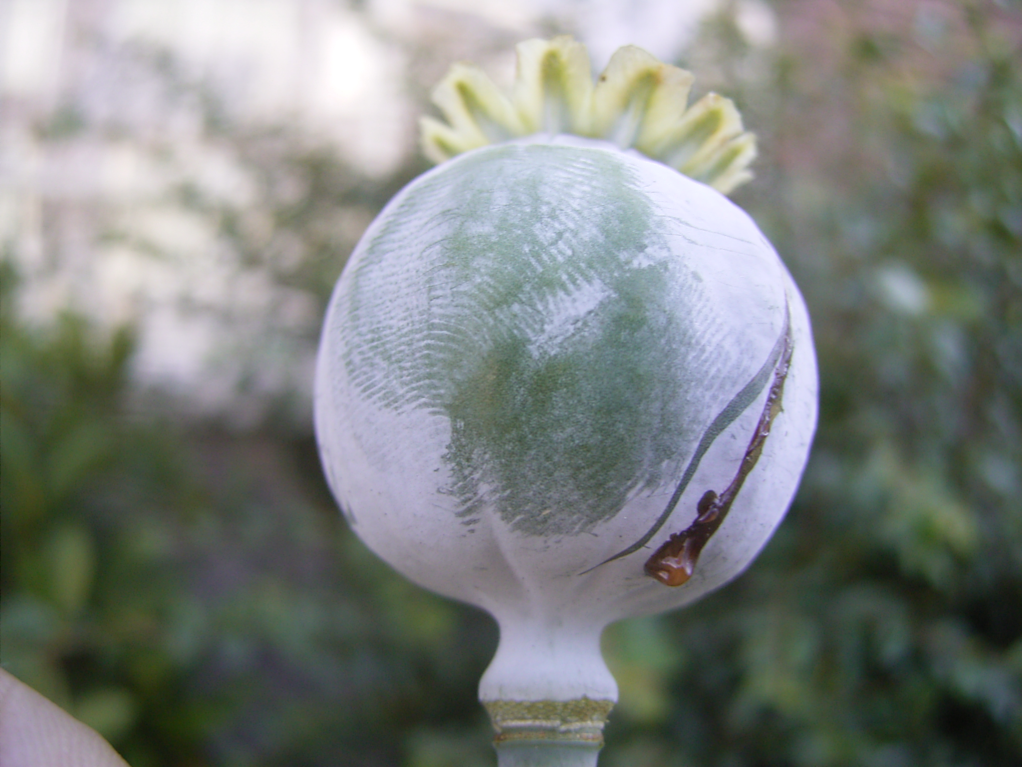 This photo shows the seedbox of papaver sominferum with the dried brown milk